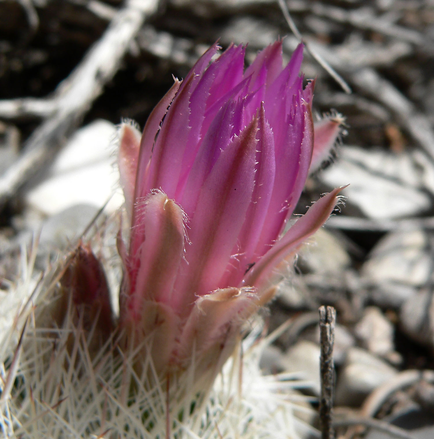 Escobaria vivipara (var. rosea?) in middle Lee Canyon near the road, Spring Mountains, southern Nevada (elev. about 2000 m)